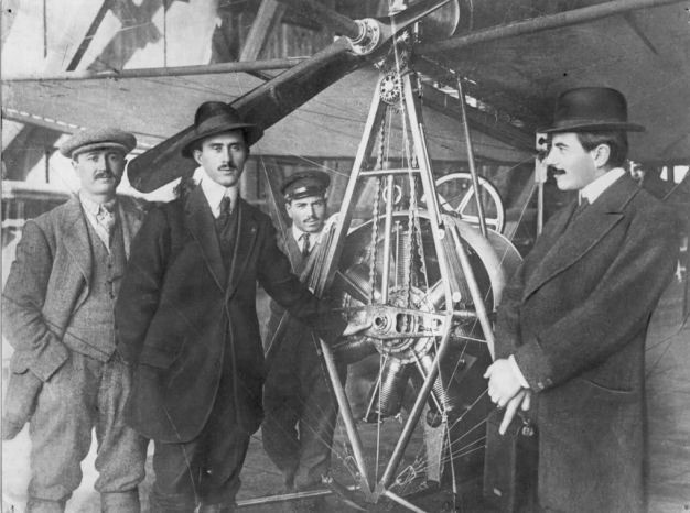 Aurel Vlaicu together with Giovanni Magnani (to his right), his mechanica Ion Ciului (to his left) and a friend, in front of Vlaicu II airplane